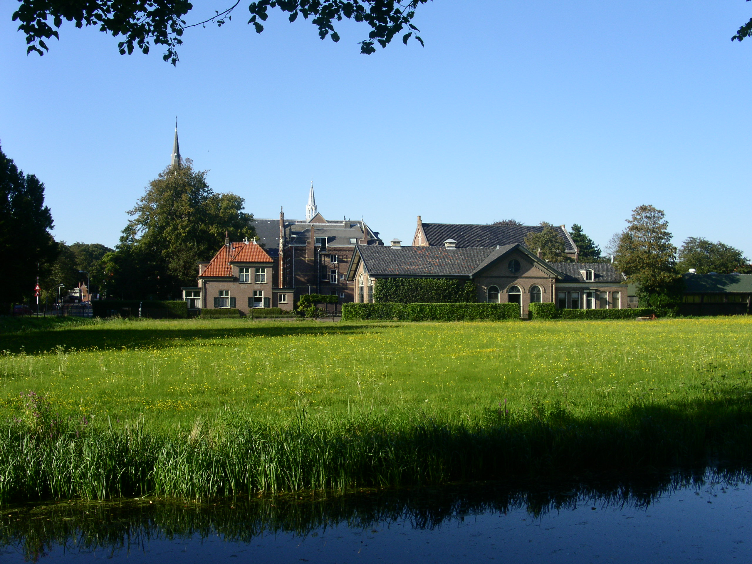 landscape of Overveen.